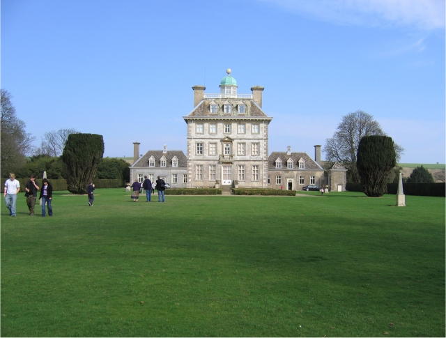 Ashdown House in Oxfordshire, United Kingdom, as viewed from the west. For more information see the Wikipedia article Ashdown House.